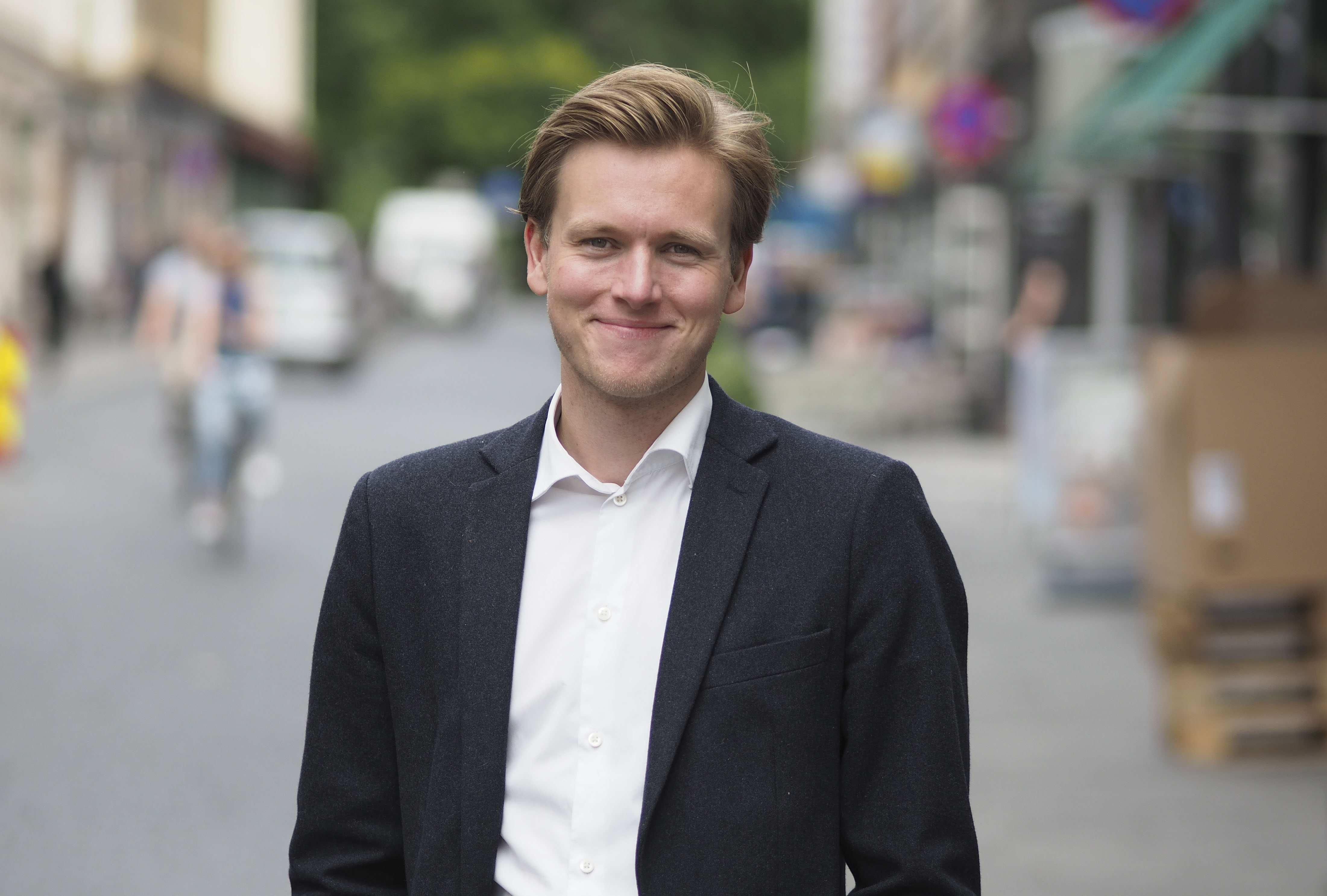 Politician Sondre Hansmark (photo: Oda Scheel)